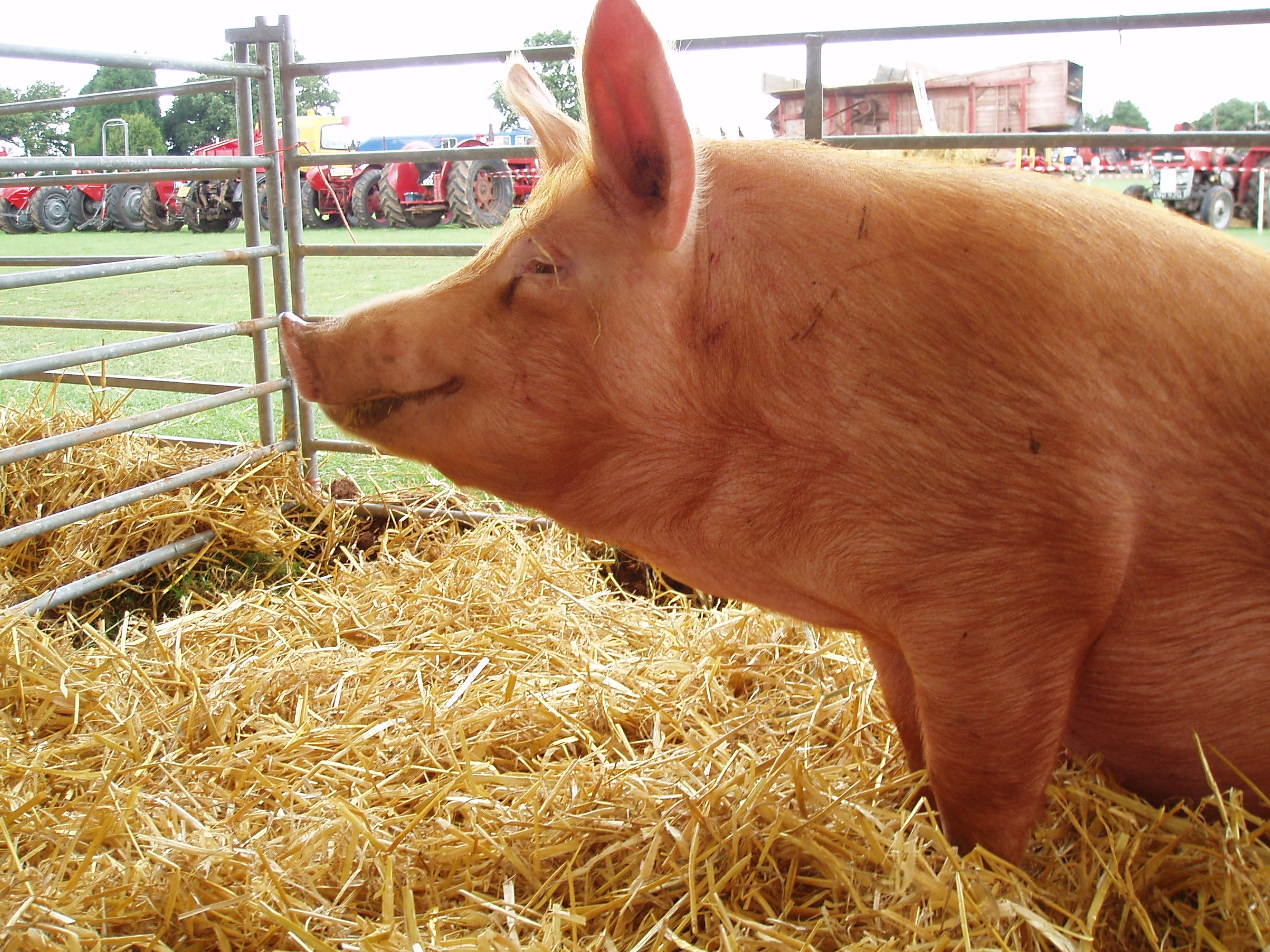 A Tamworth pig at the Great British Agricultural Show.